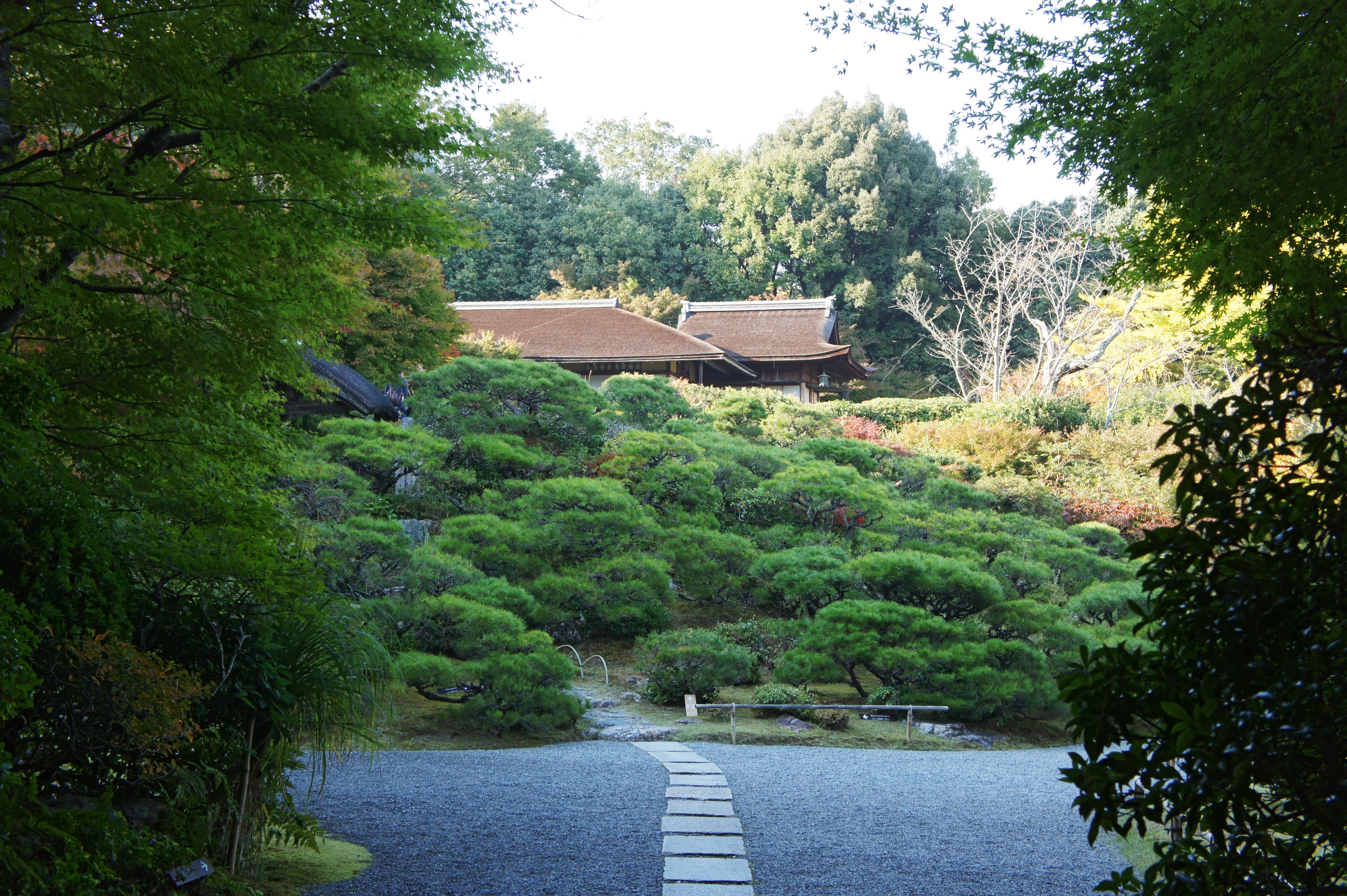 Ōkōchi Sansō in Ukyō-ku, Kyoto, Kyoto prefecture, Japan